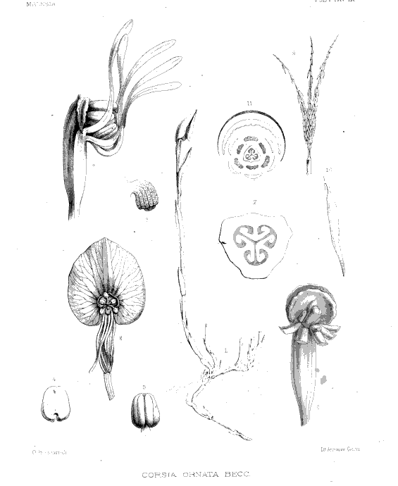 Botanical illustration of Corsia ornata, discovered in New Guinea in 1875